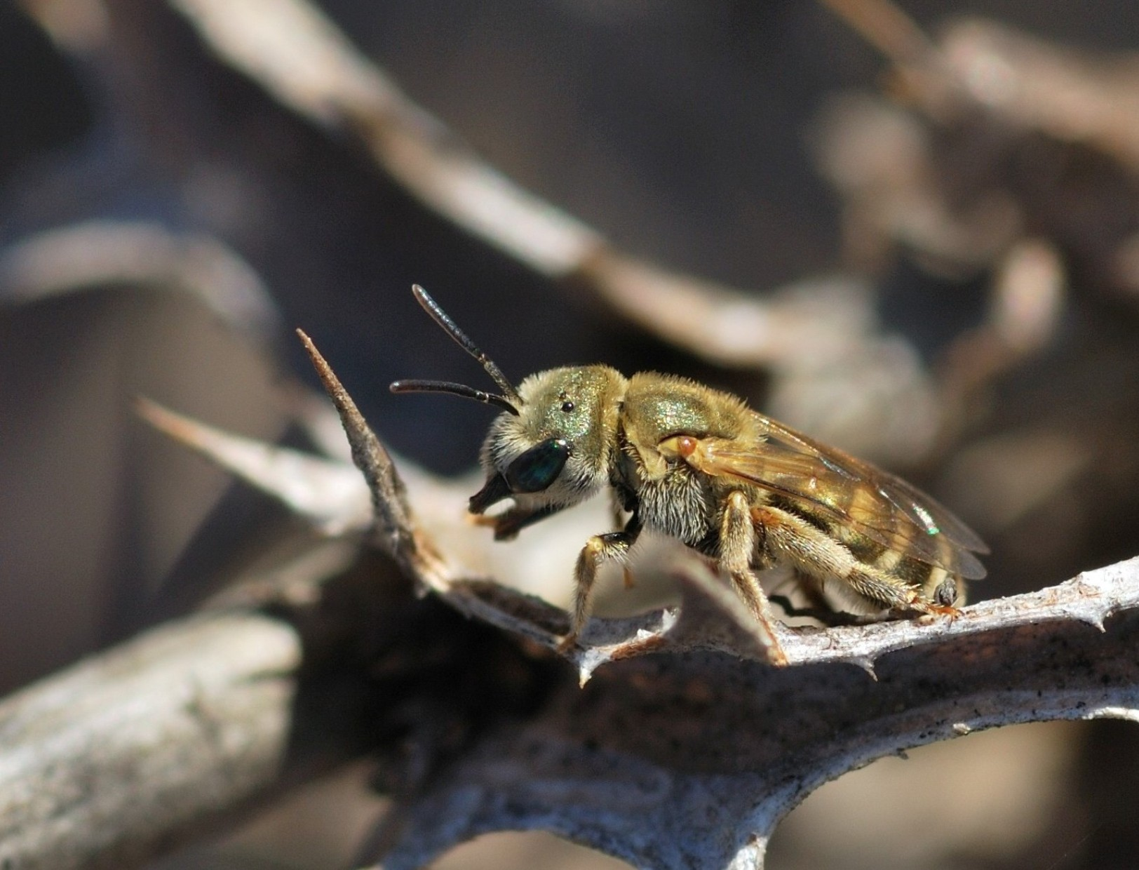 Halictus (Seladonia) subauratus meridionalis, female, Mount Carmel, Israel, August 4, 2009.